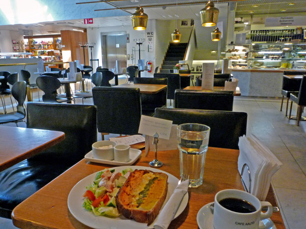 Cafe Aalto, Helsinki.